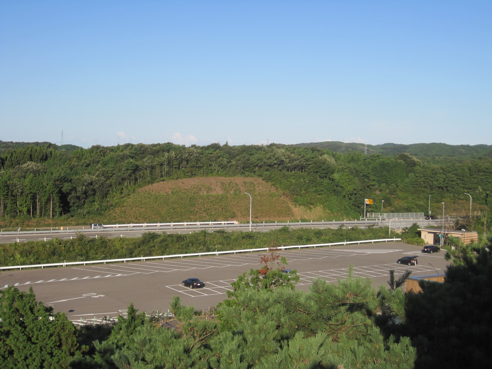 Bessyodake Service Area(Noto Toll Road)